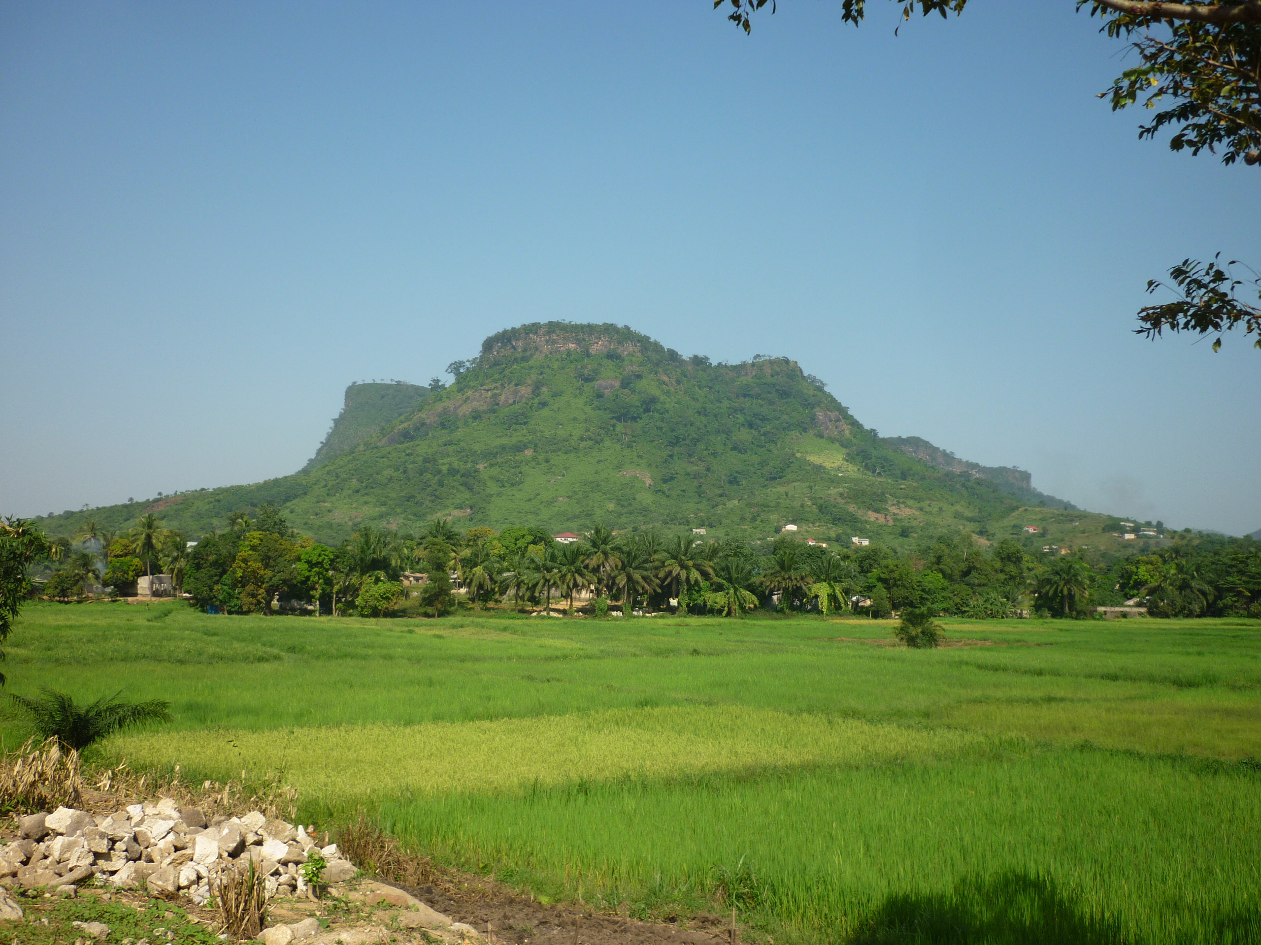 This is an image of "African people at work" from Guinea